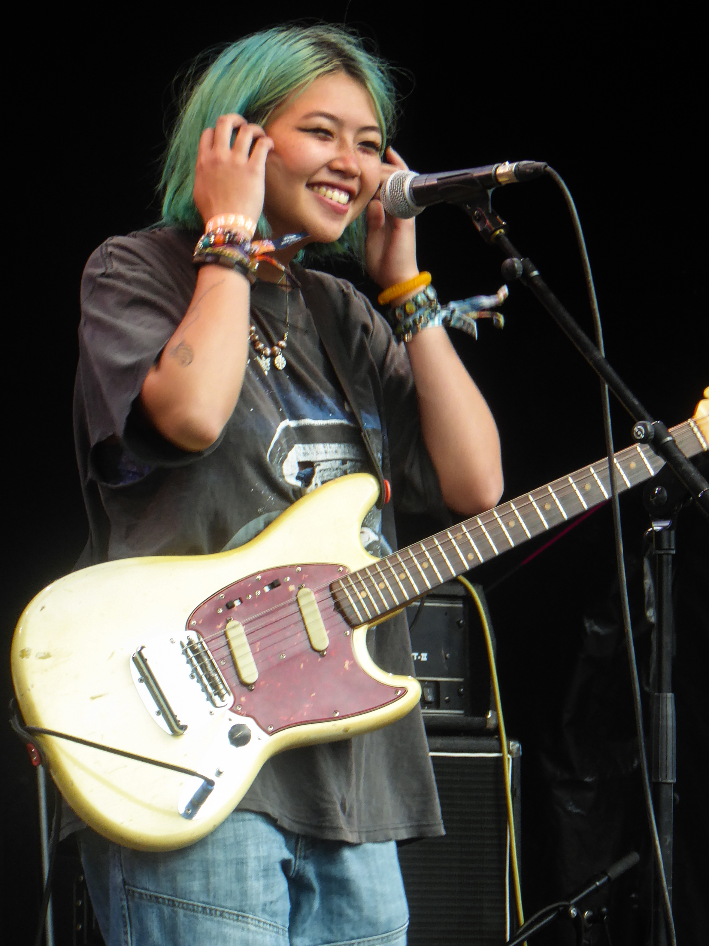 Beabadoobee at End of the Road Festival in August 2019